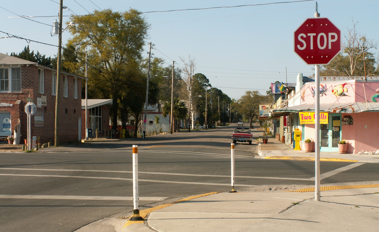 Looking north on Franklin County Road 67 (Tallahassee Street) in Carabelle, Florida, USA from the US-98 intersection.